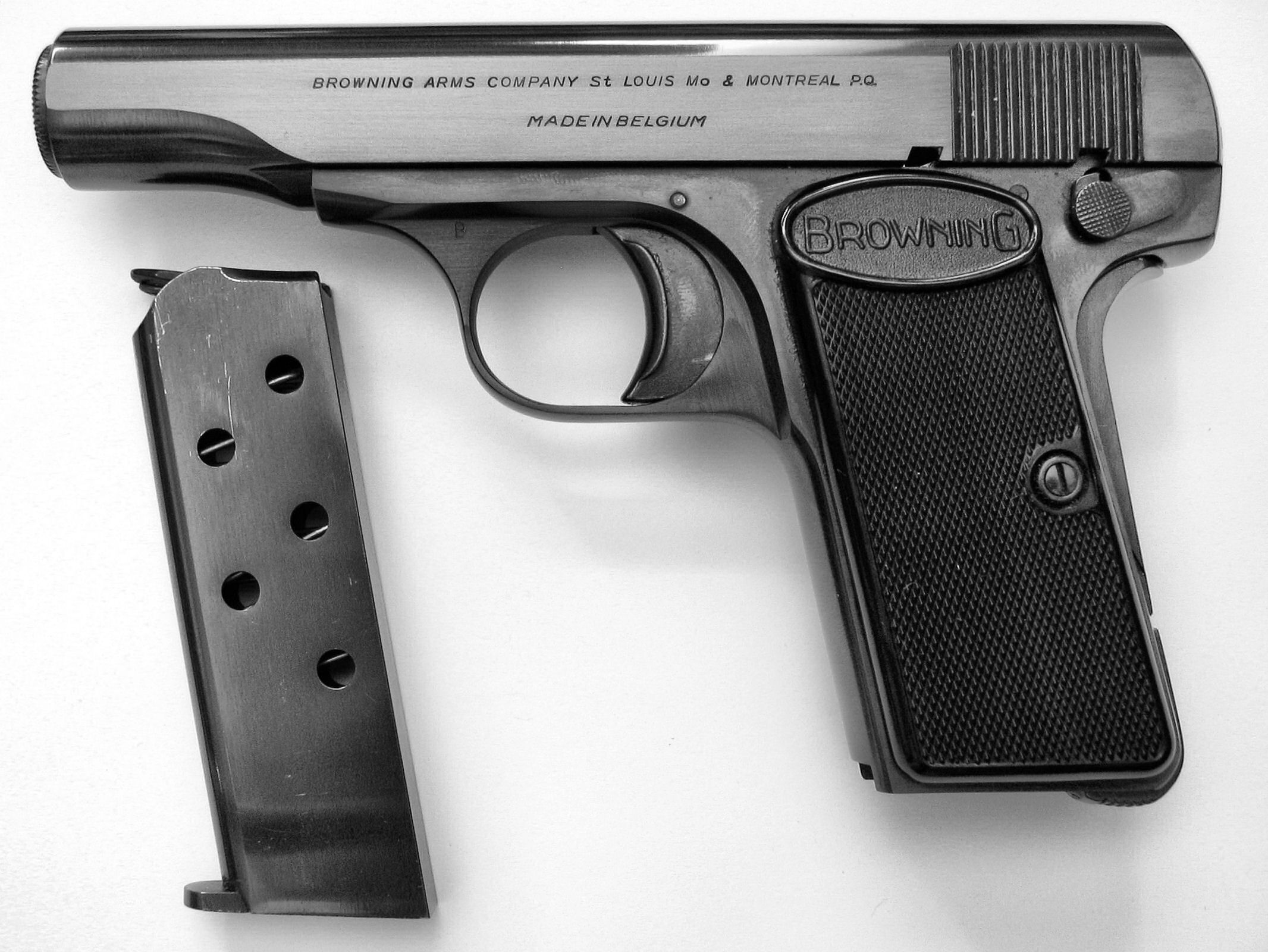 Also shown: six-round magazine.